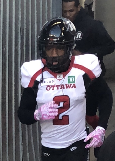 Randall Evans, defensive back for the Ottawa Redblacks.